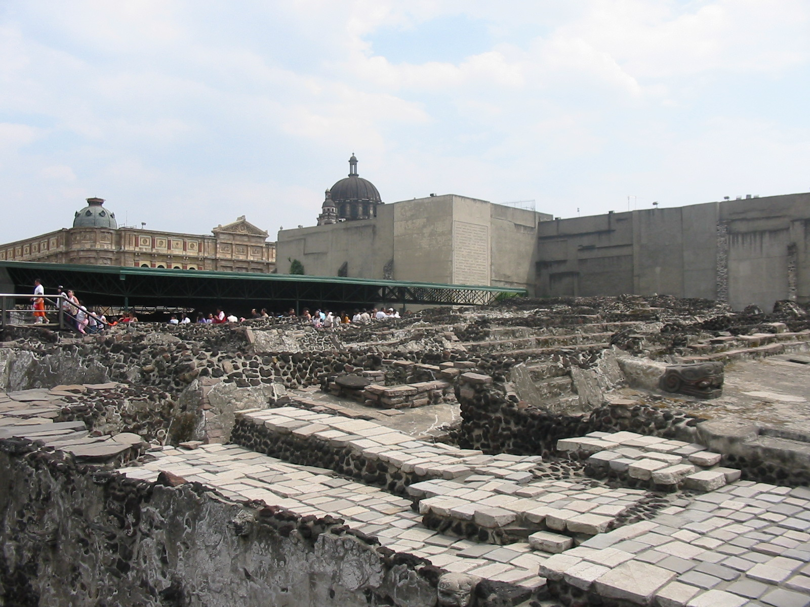 View of Templo Mayor archeological site in Mexico City